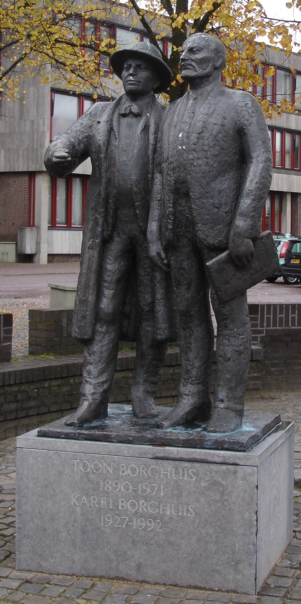 Statue father/son Borghuis (1997) by Frank Letterie in Oldenzaal/The Netherlands